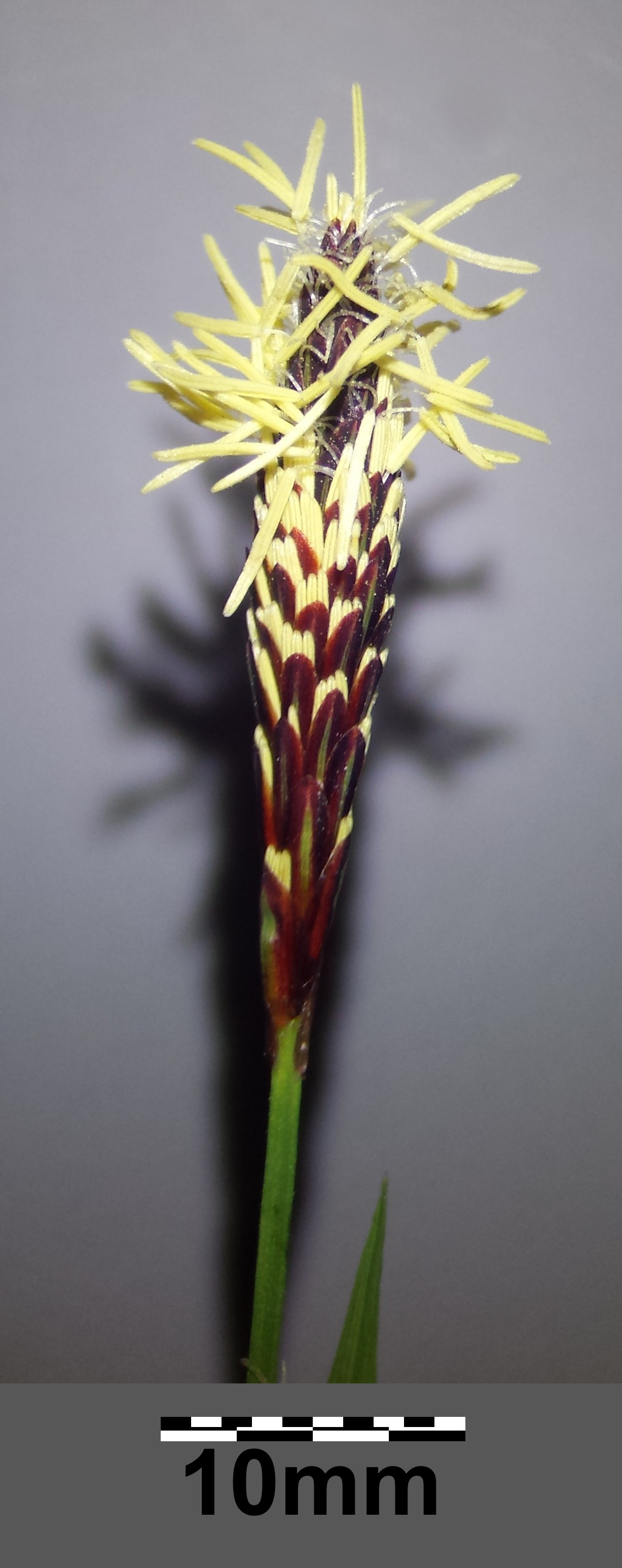 Male spike Taxonym: Carex pilosa ss Fischer et al. EfÖLS 2008 ISBN 978-3-85474-187-9 Location: Kreuttal, district Mistelbach, Lower Austria - ca. 240 m a.s.l. Habitat: dedicious forest